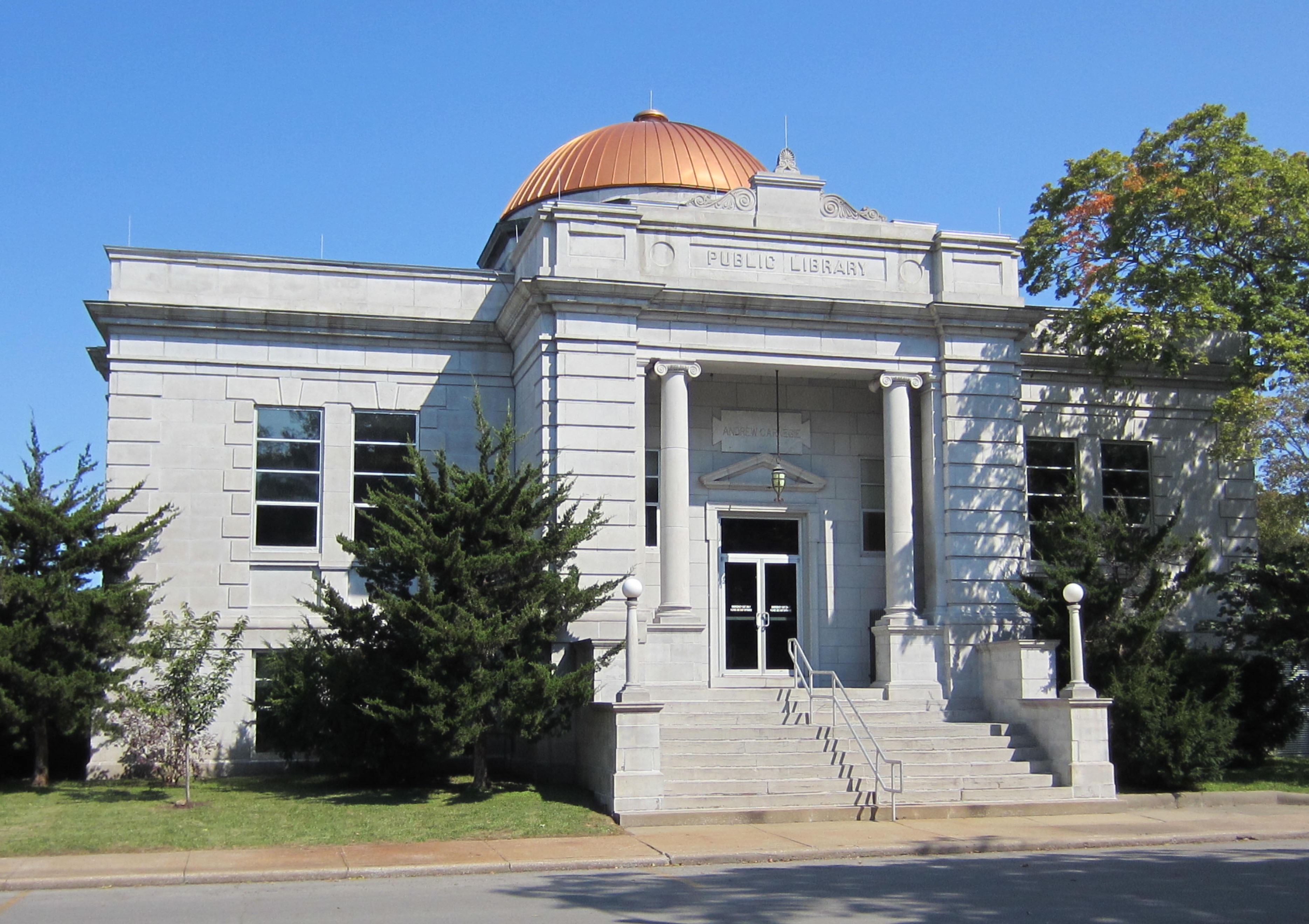 Carthage, Missouri, Carnegie Public Library Building, a contributing property in the Carthage South Historic District